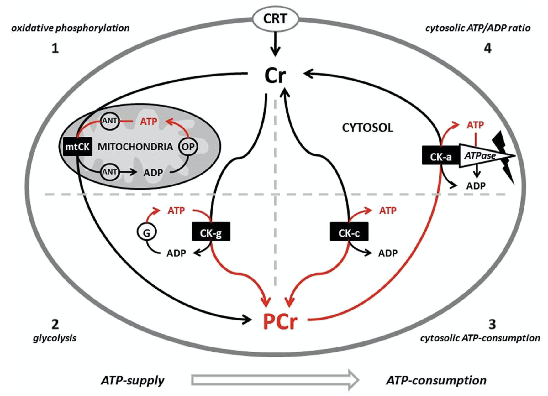 Proposed creatine kinase/phosphocreatine (CK/PCr) energy shuttle. CRT = creatine transporter; ANT = adenine nucleotide translocator; ATP = adenine triphosphate; ADP = adenine diphosphate; OP = oxidative phosphorylation; mtCK = mitochondrial creatine kinase; G = glycolysis; CK-g = creatine kinase associated with glycolytic enzymes; CK-c = cytosolic creatine kinase; CK-a = creatine kinase associated with subcellular sites of ATP utilization; 1 – 4 sites of CK/ATP interaction. From Kreider and Jung